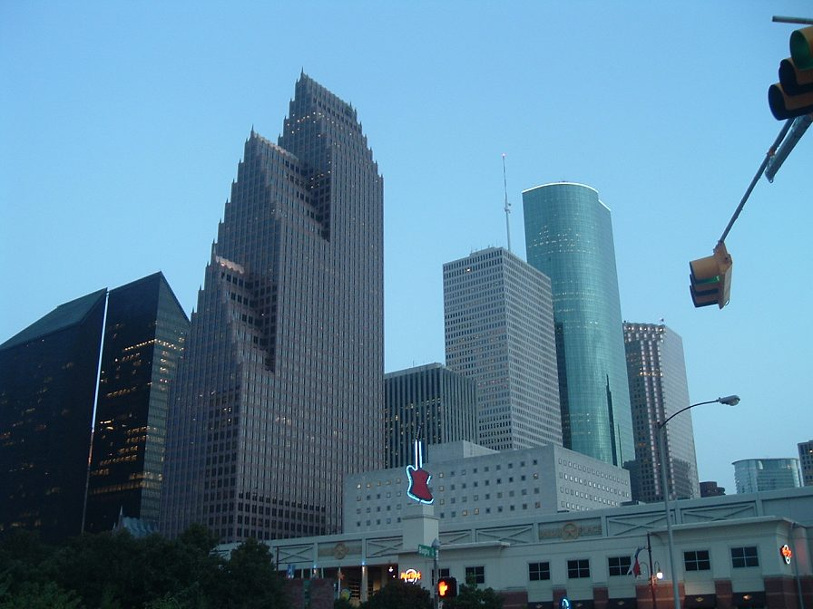 Downtown Houston (Texas), selbst aufgenommen am 01.08.2005